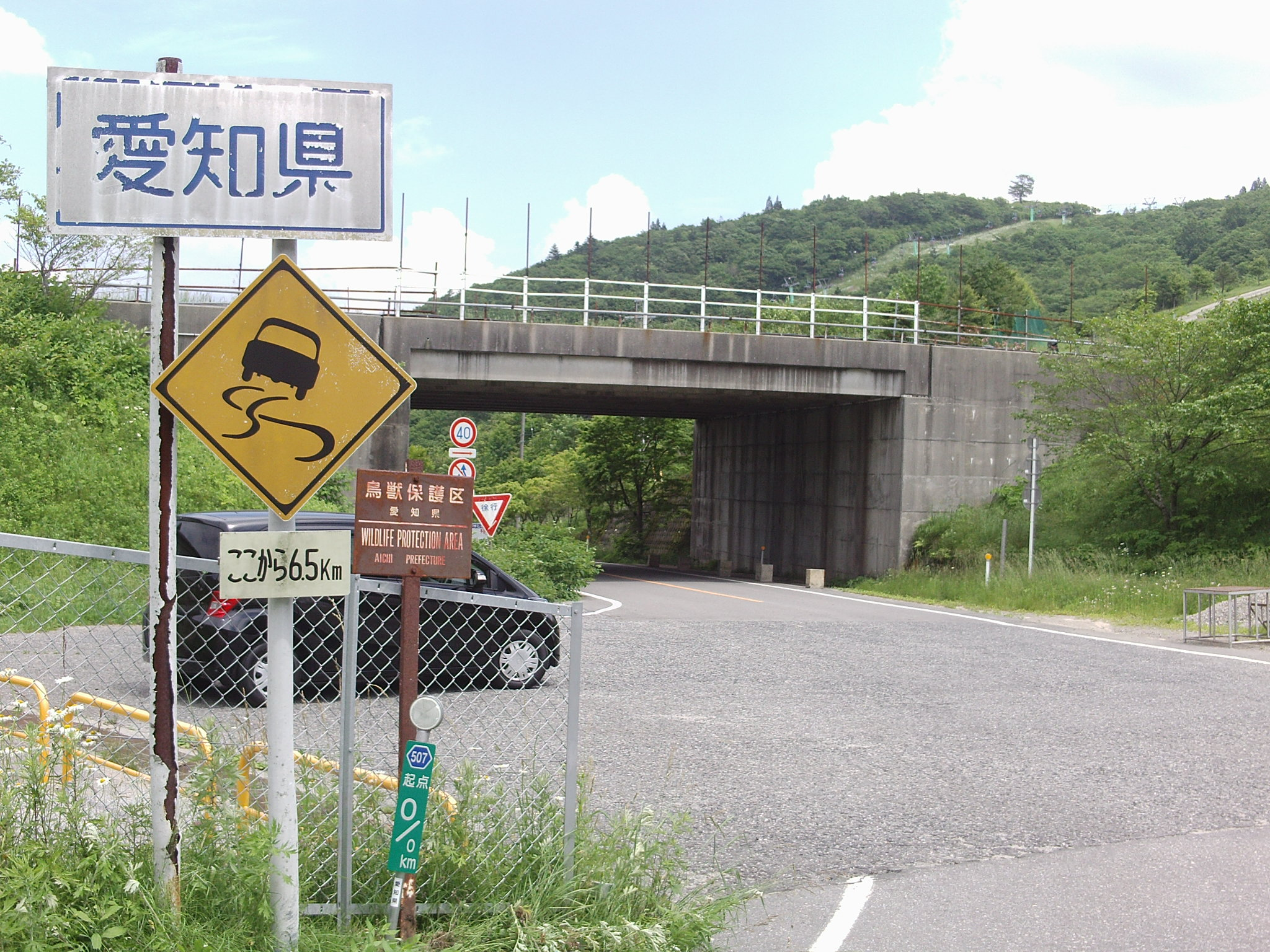 Aichi prefectural road No.507 in Sakauba Toyone-mura, Kitashitara-gun, Aichi.